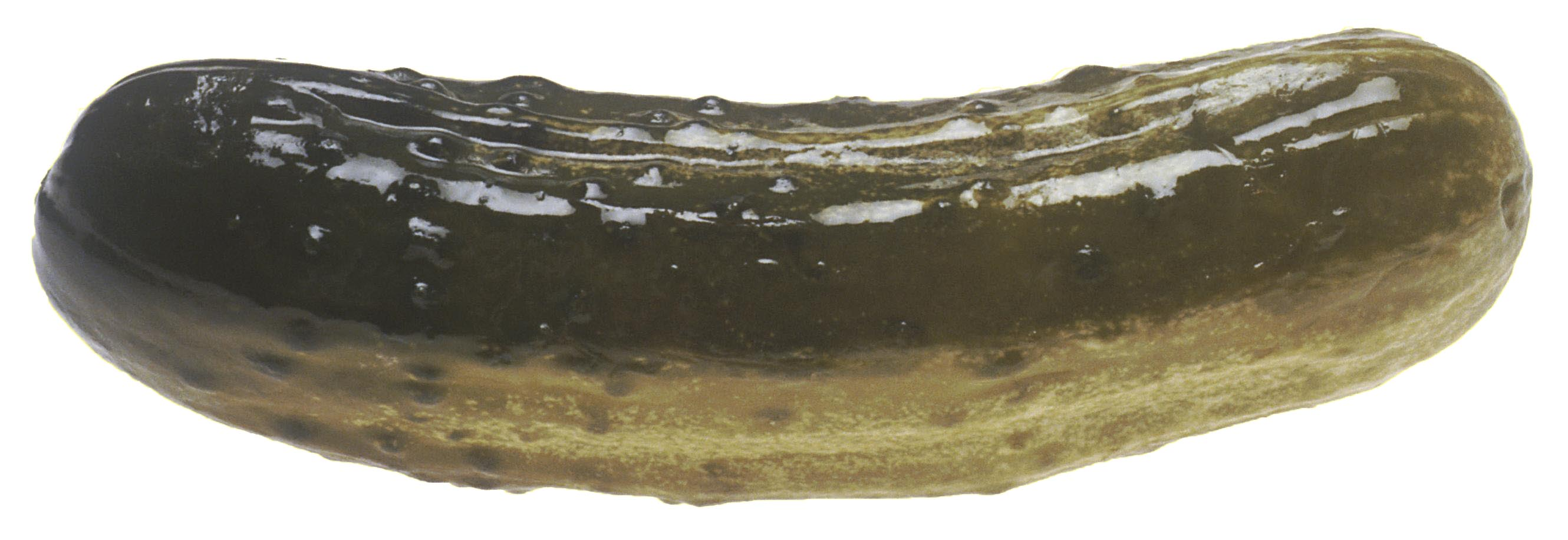 One whole, deli dill pickle